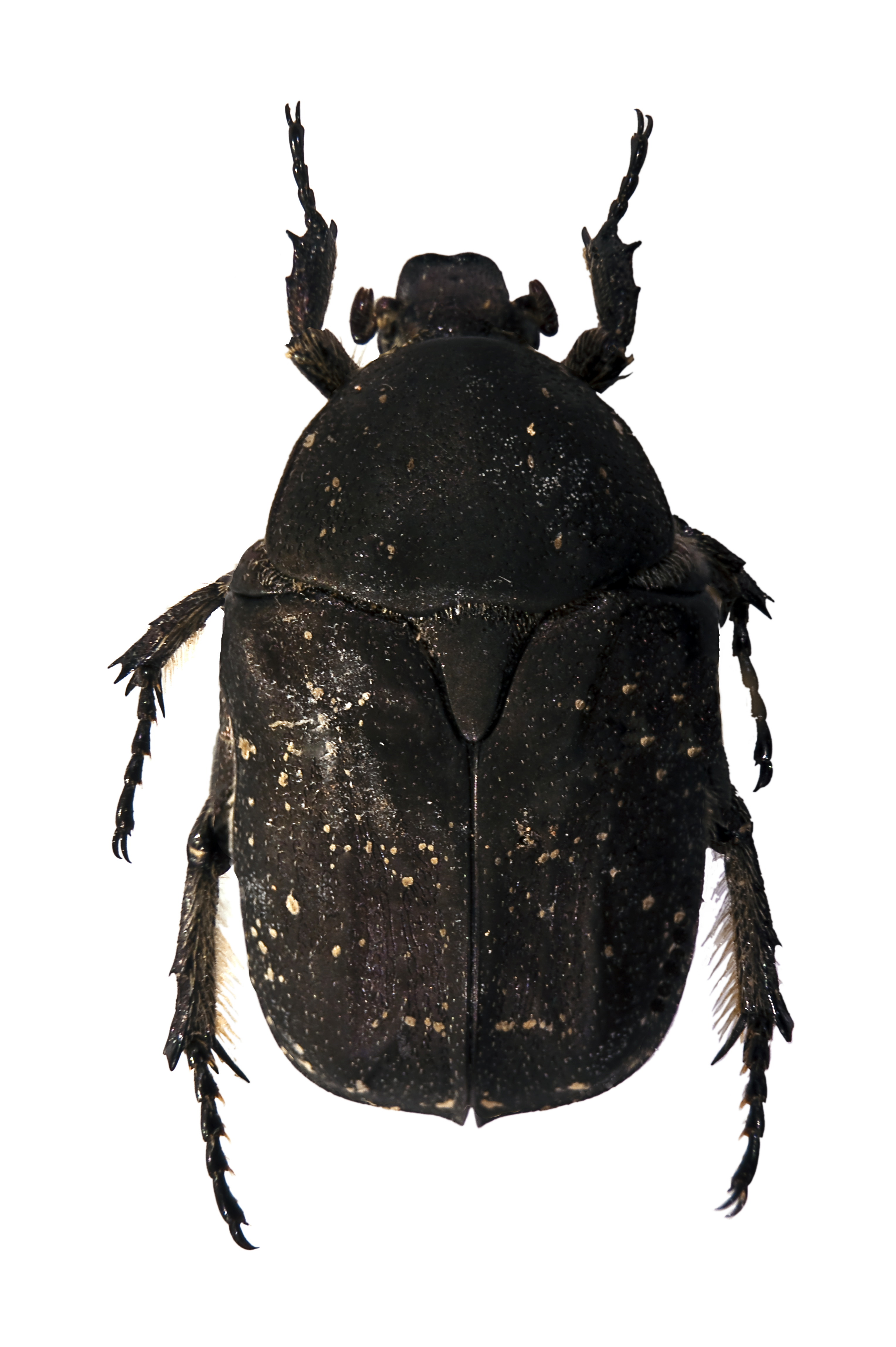 Protaetia (neotocia) morio - dorsal view - France - 1.8cm